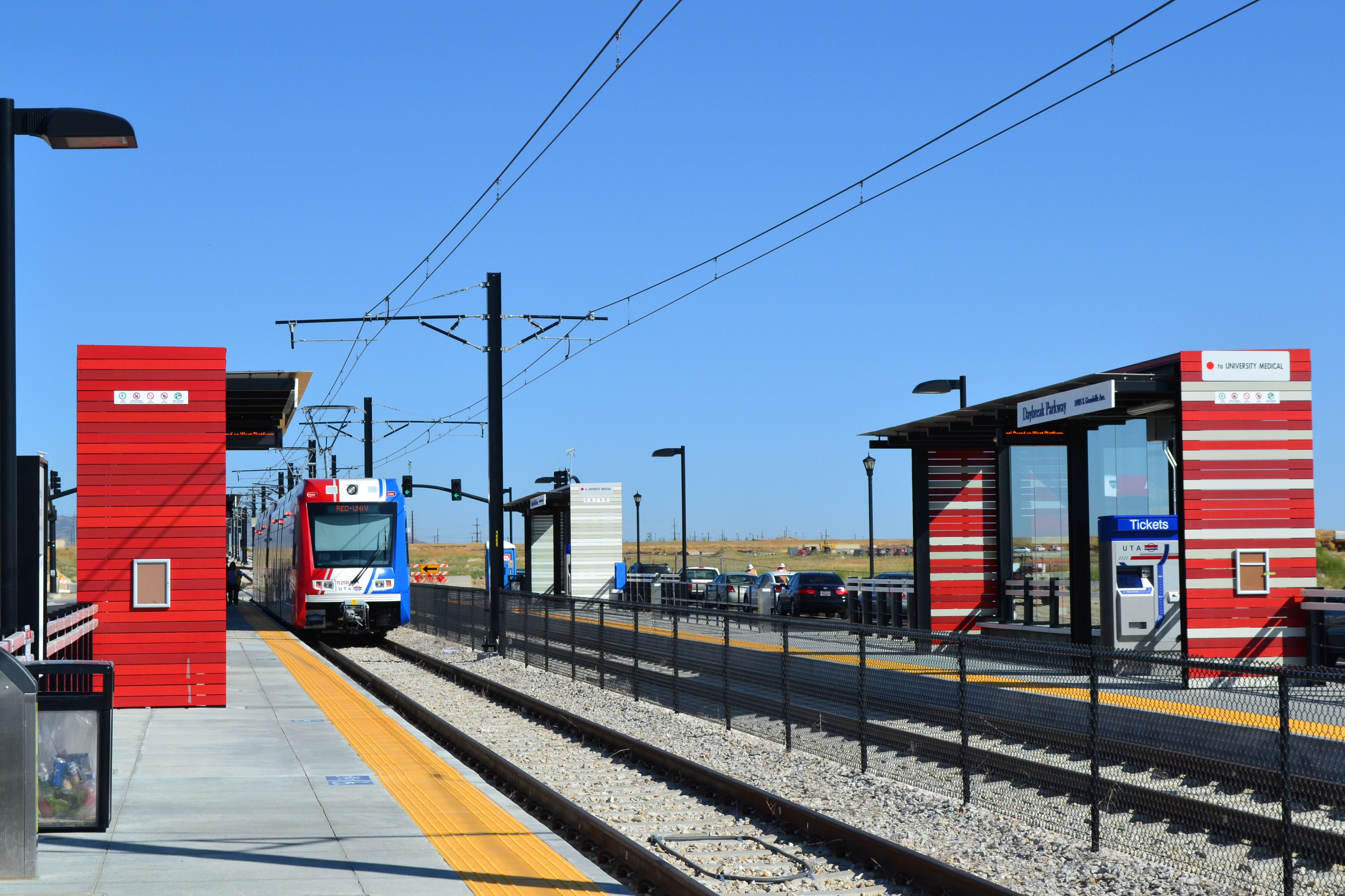 A Utah Transit Authority Trax light rail vehicle at the southern terminus of the red line in Daybreak. The LRV is a Siemens S70. The southern Daybreak station, as well as its northern counterpart, has this modern design that can't be found outside of Daybreak. (The station's shelters are part of an untitled musical system artwork by Jim Green.)